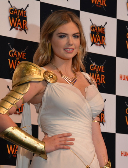 Kate Upton at G-Star 2014